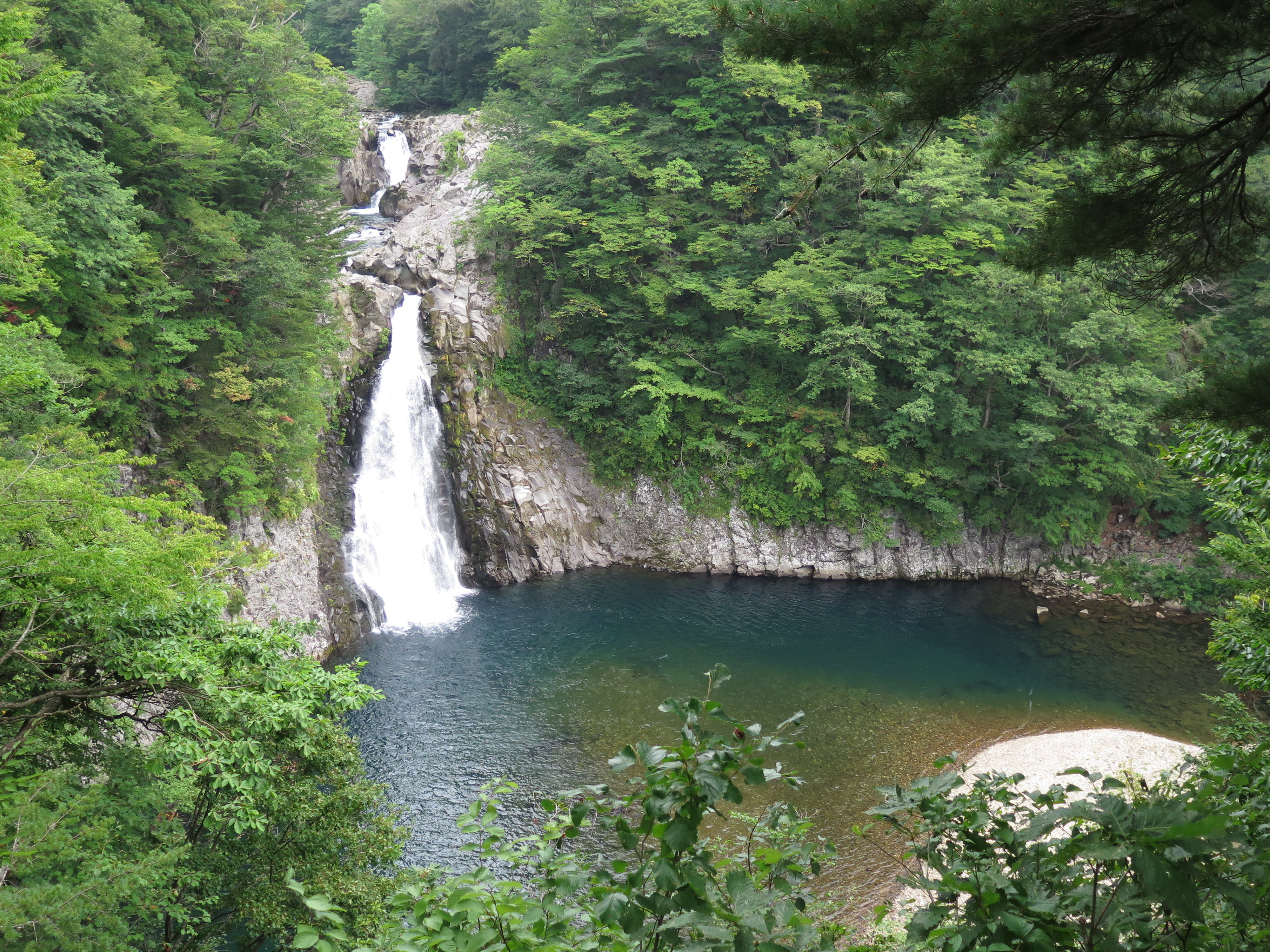 Hottai Waterfall. Chokai, Yurihonjo, Akita, Japan.